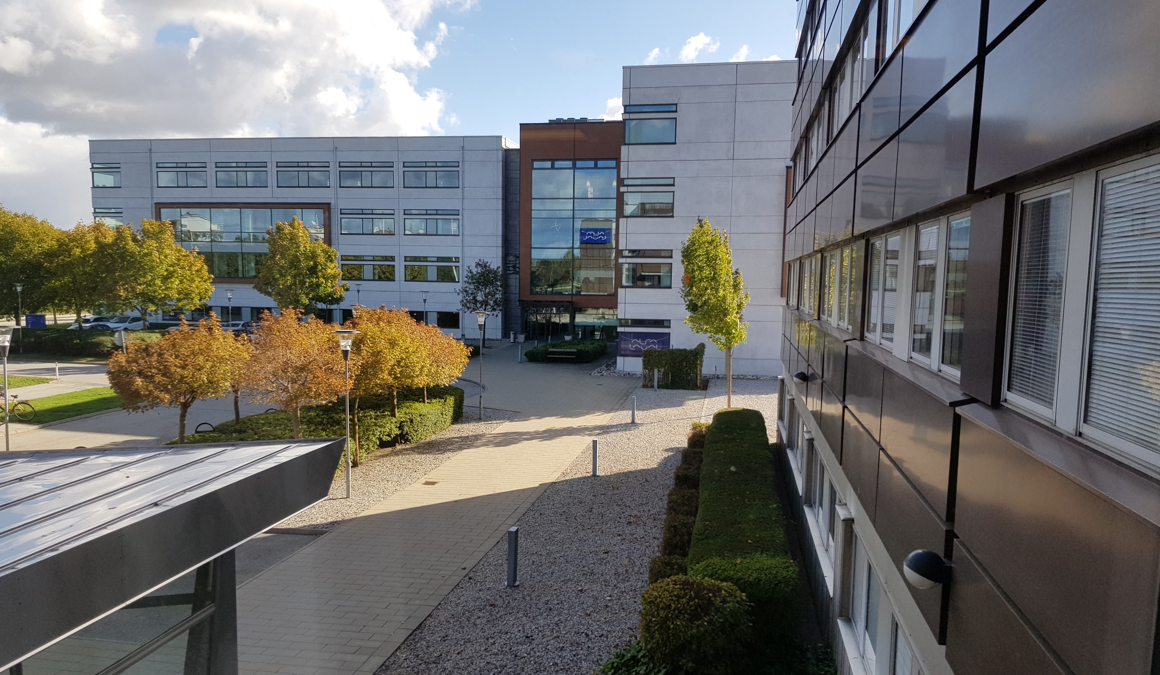 The Alfa Laval head office in Gunnesbo outside of Lund, Sweden.